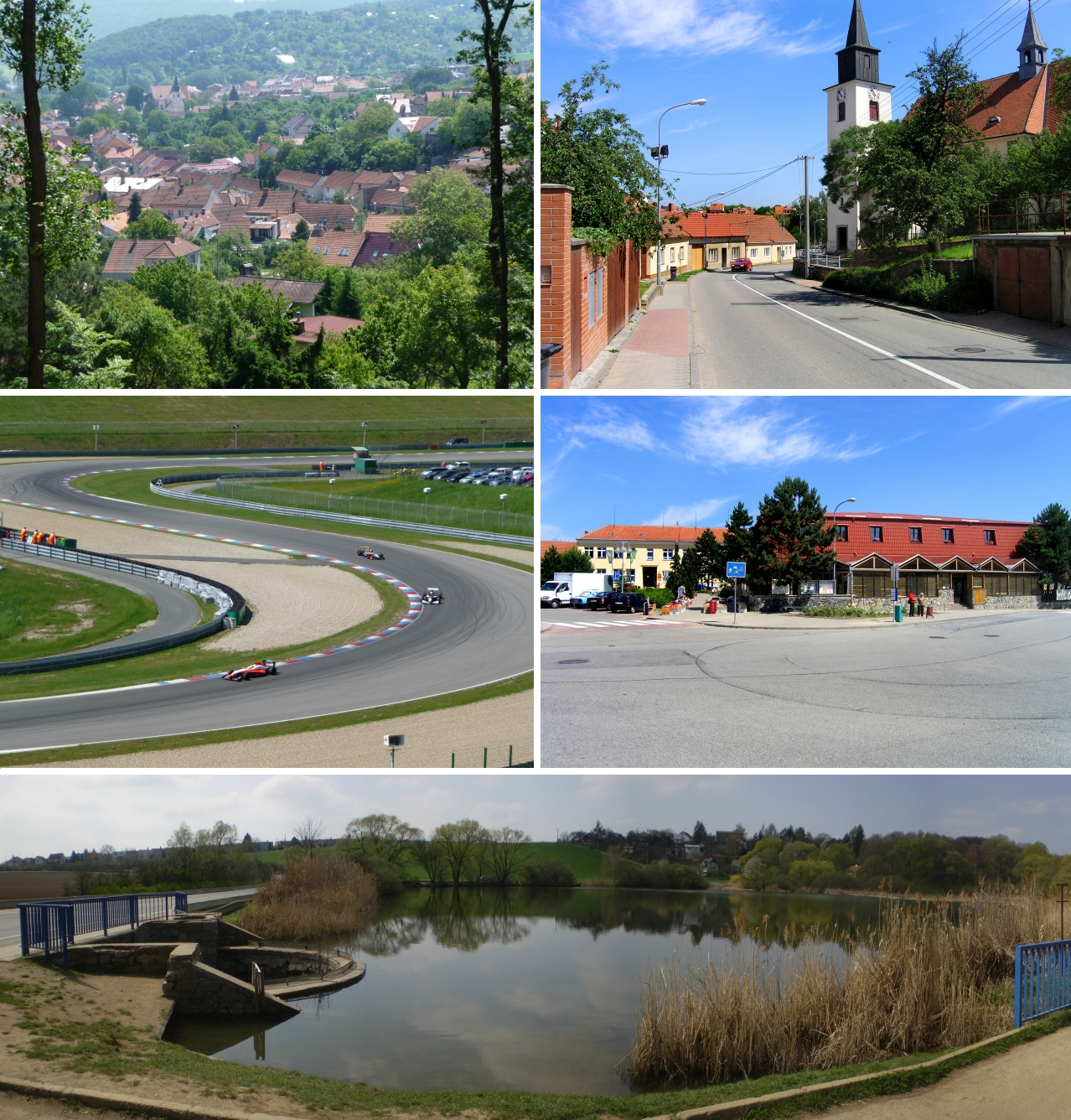 Křivánkovo square in Žebětín quarter in Brno, Czech Republic